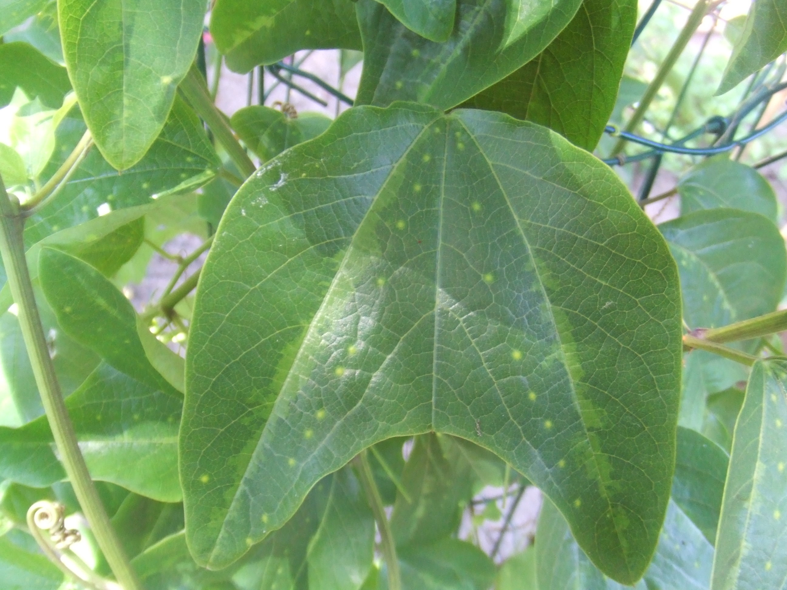 Passiflora jorullensis, picture taken at the Passiflorahoeve in Harskamp, The Netherlands